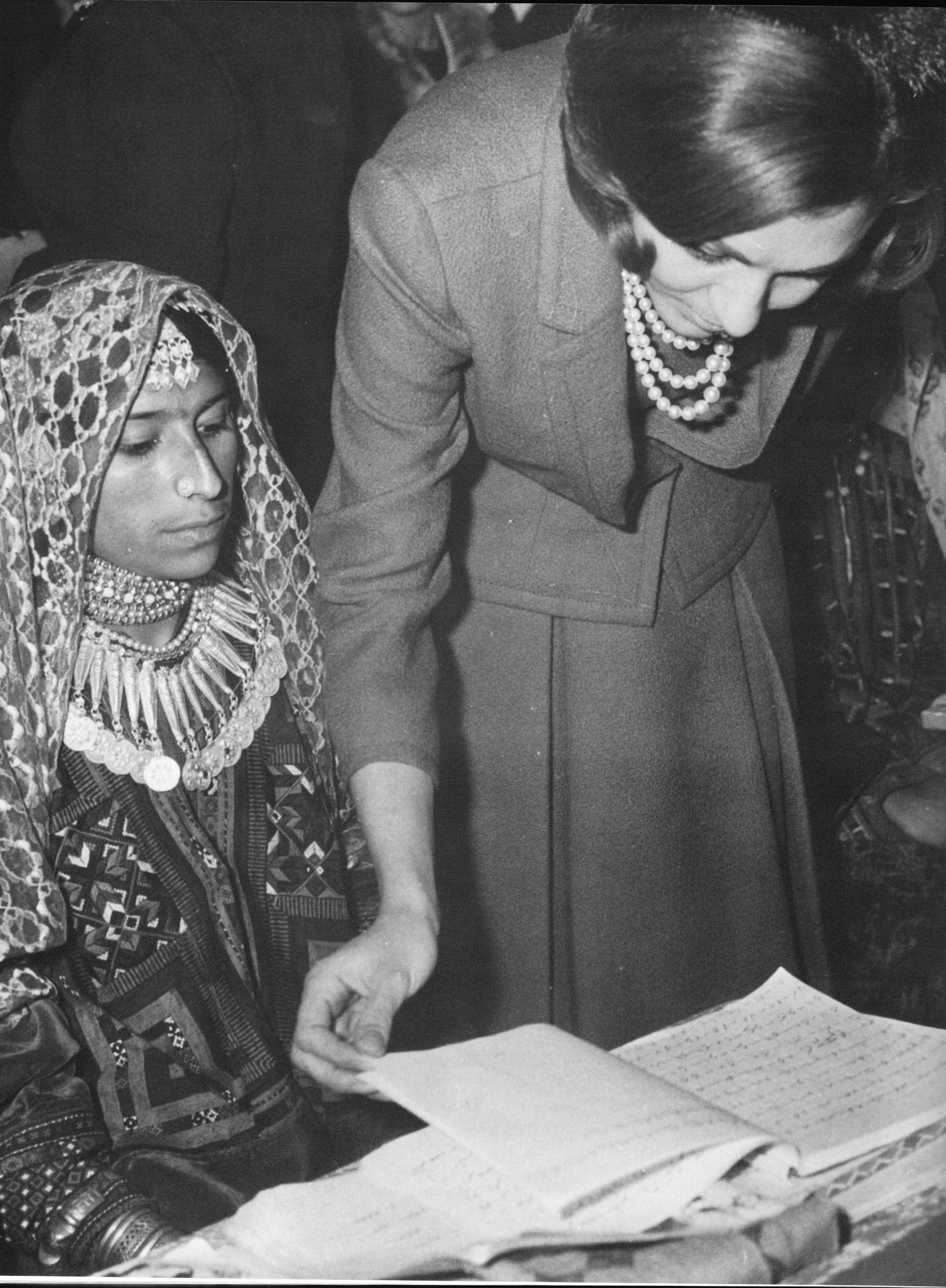 Shahbanu Farah Pahlavi, visiting a school in Sistan-Balutschistan province (1965)